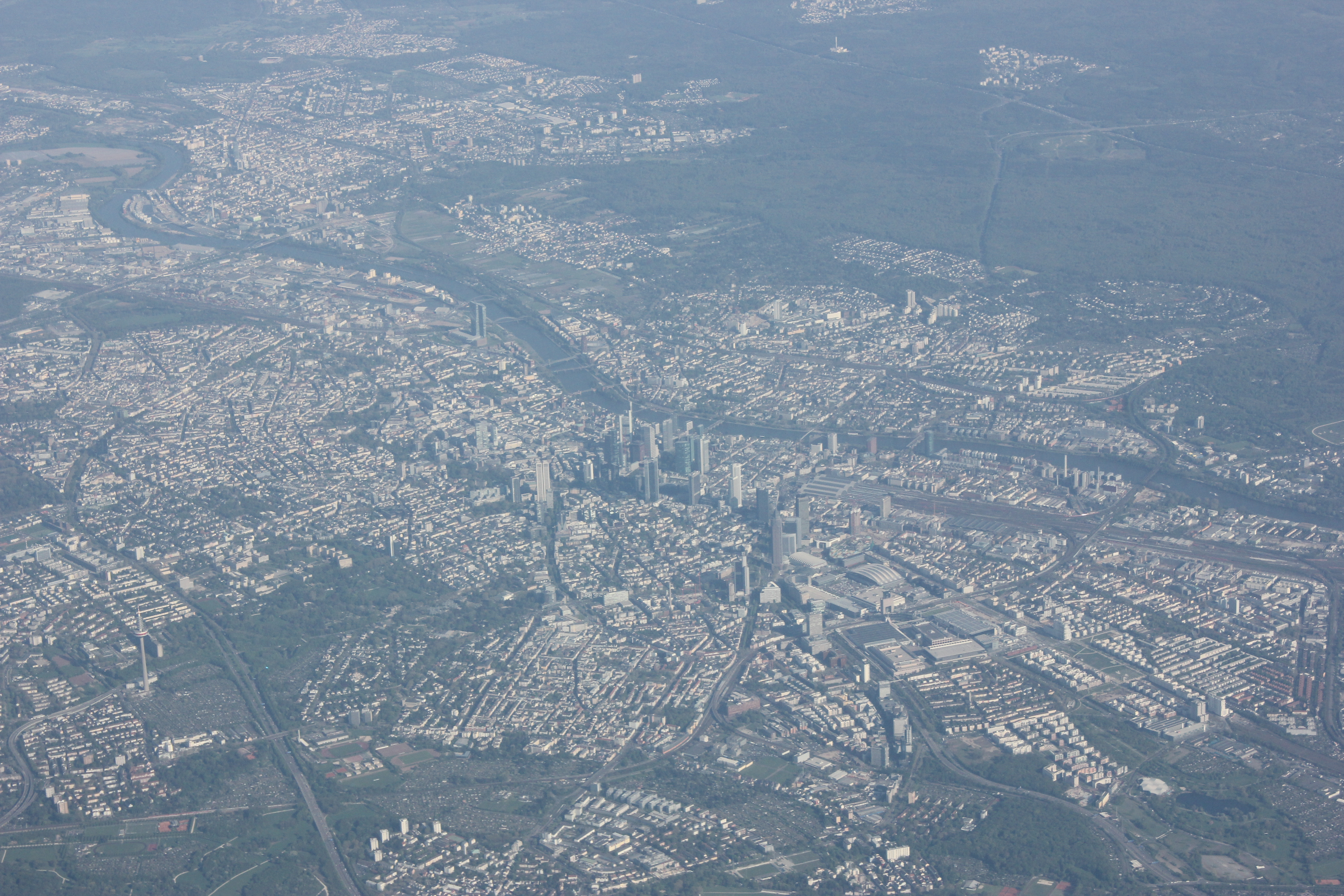 Frankfurt am Main